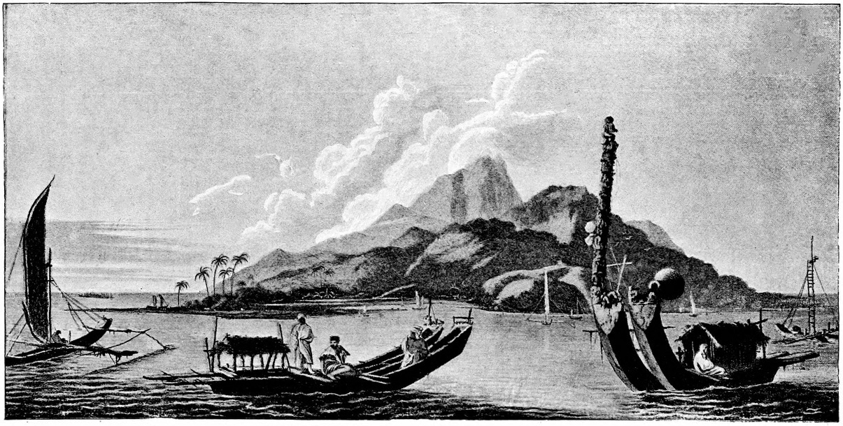 This is an plate from the 1893 publication of Lieutenant (later Captain) James Cook's journal of his first voyage to the Pacific Ocean on board the Endeavour in 1769.